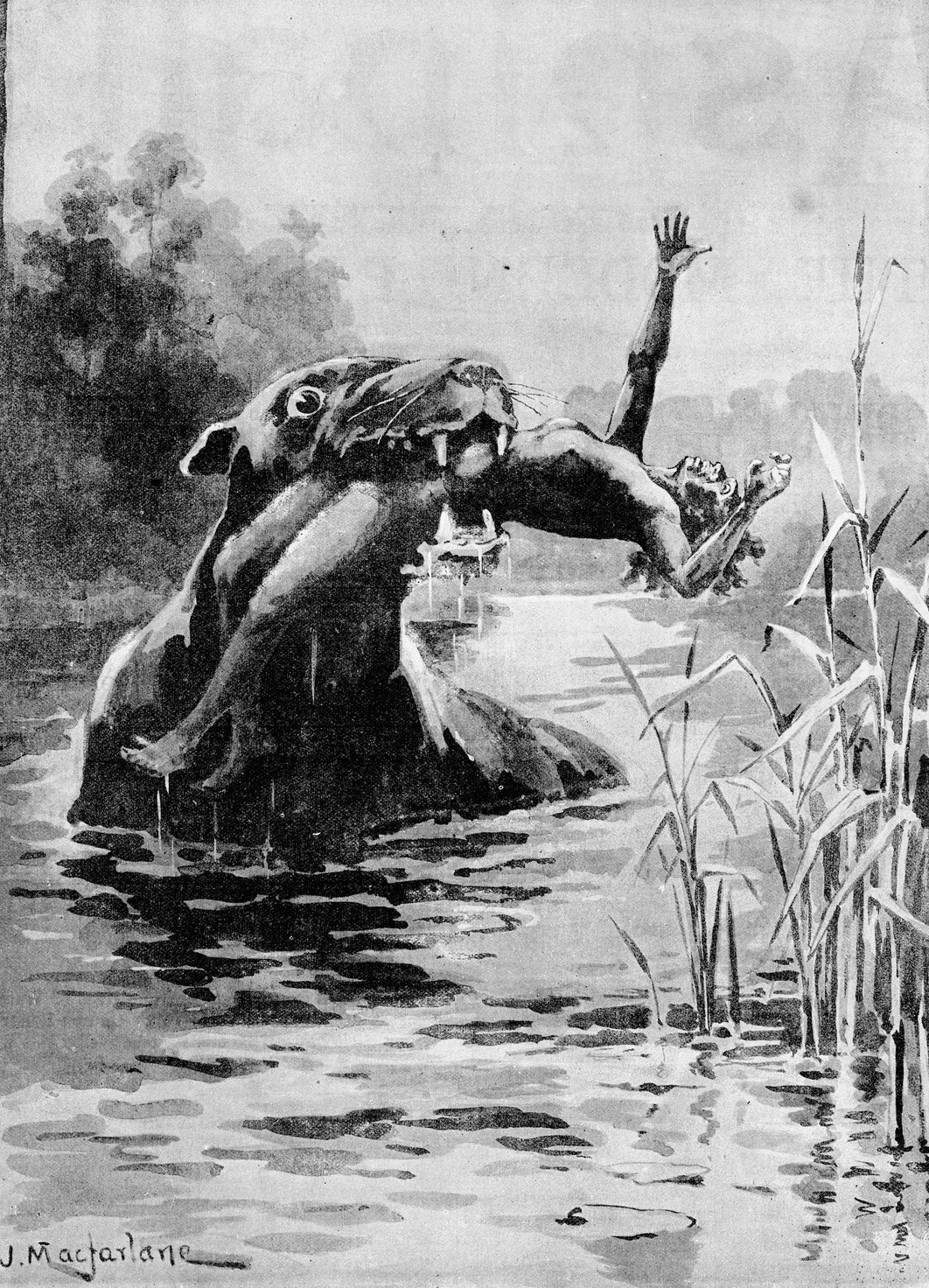 ABORIGINAL MYTHS. - THE BUNYIP (caption) - photomechanical reproduction : halftone. State Library of Victoria Accession Number: IAN01/10/90/12 Image Number: mp006089 Notes: Print published in the Illustrated Australian news. Title printed below image l.c. Publication: Melbourne : David Syme & Co., Engraved in image l.l.: J. Macfarlane